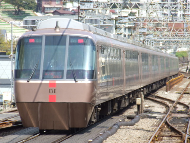 An Odakyu 30000 series "EXE" EMU at Shin-Yurigaoka Station on a combined Hakone and Enoshima service